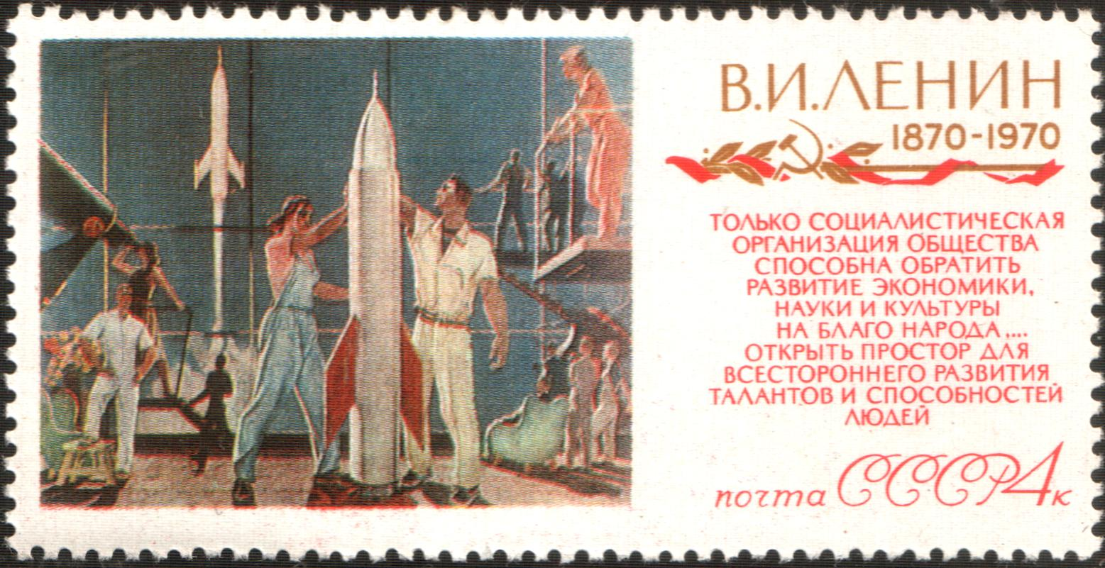 USSR stamp: Conquerors of the Space (After Aleksandr Deyneka). Series: Centenary of Birth of Vladimir Lenin (1870-1924). Lenin on Paintings